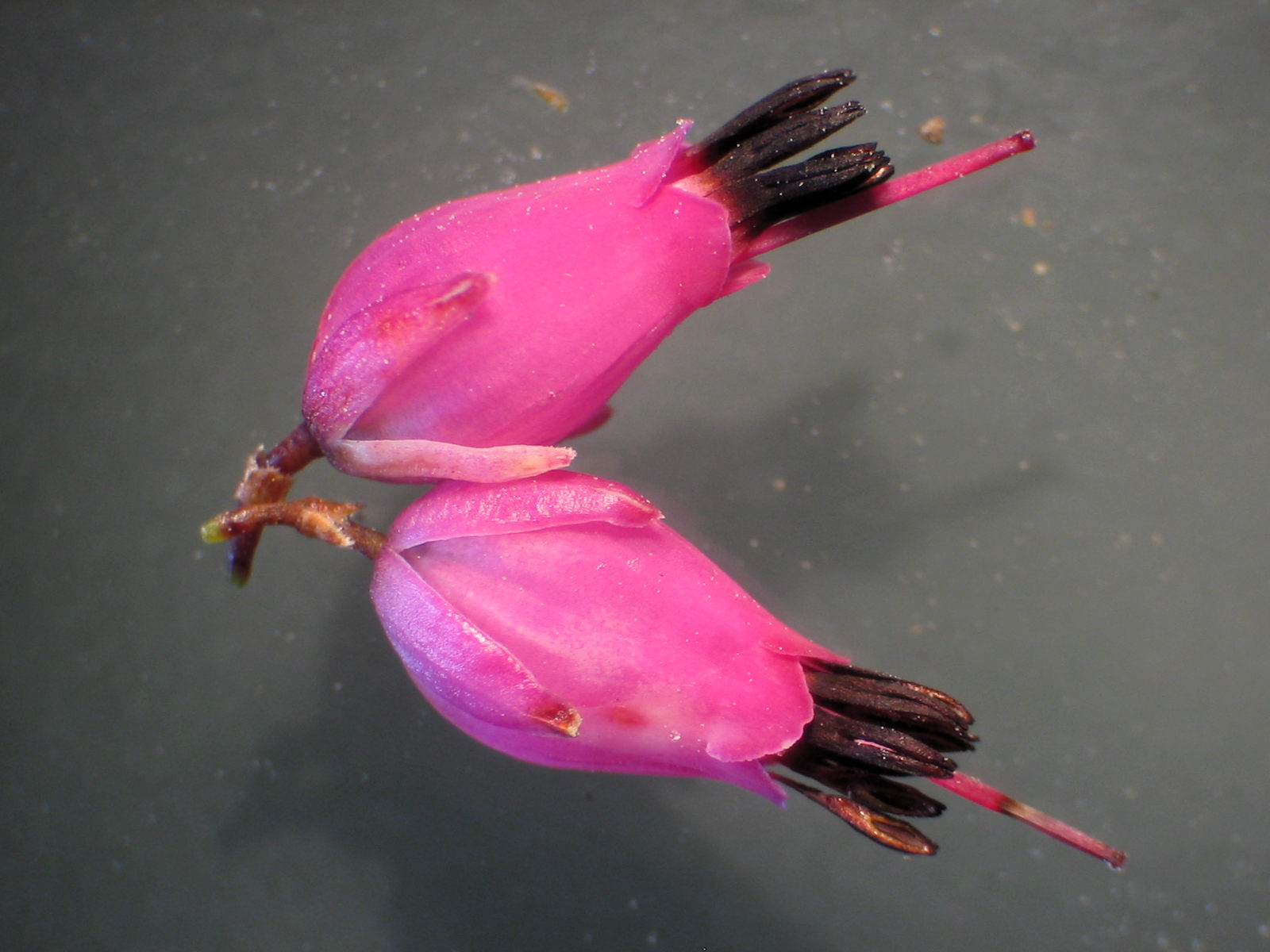 Erica herbacea